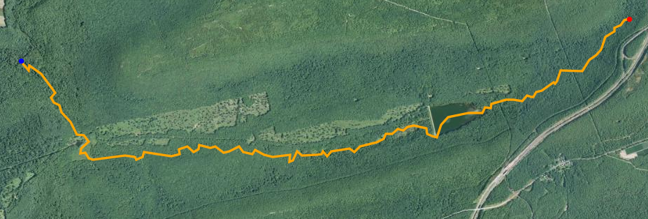 Satellite map of Messers Run. The red dot is the stream's source and blue dot is its mouth. Data available from U.S. Geological Survey, National Geospatial Program.